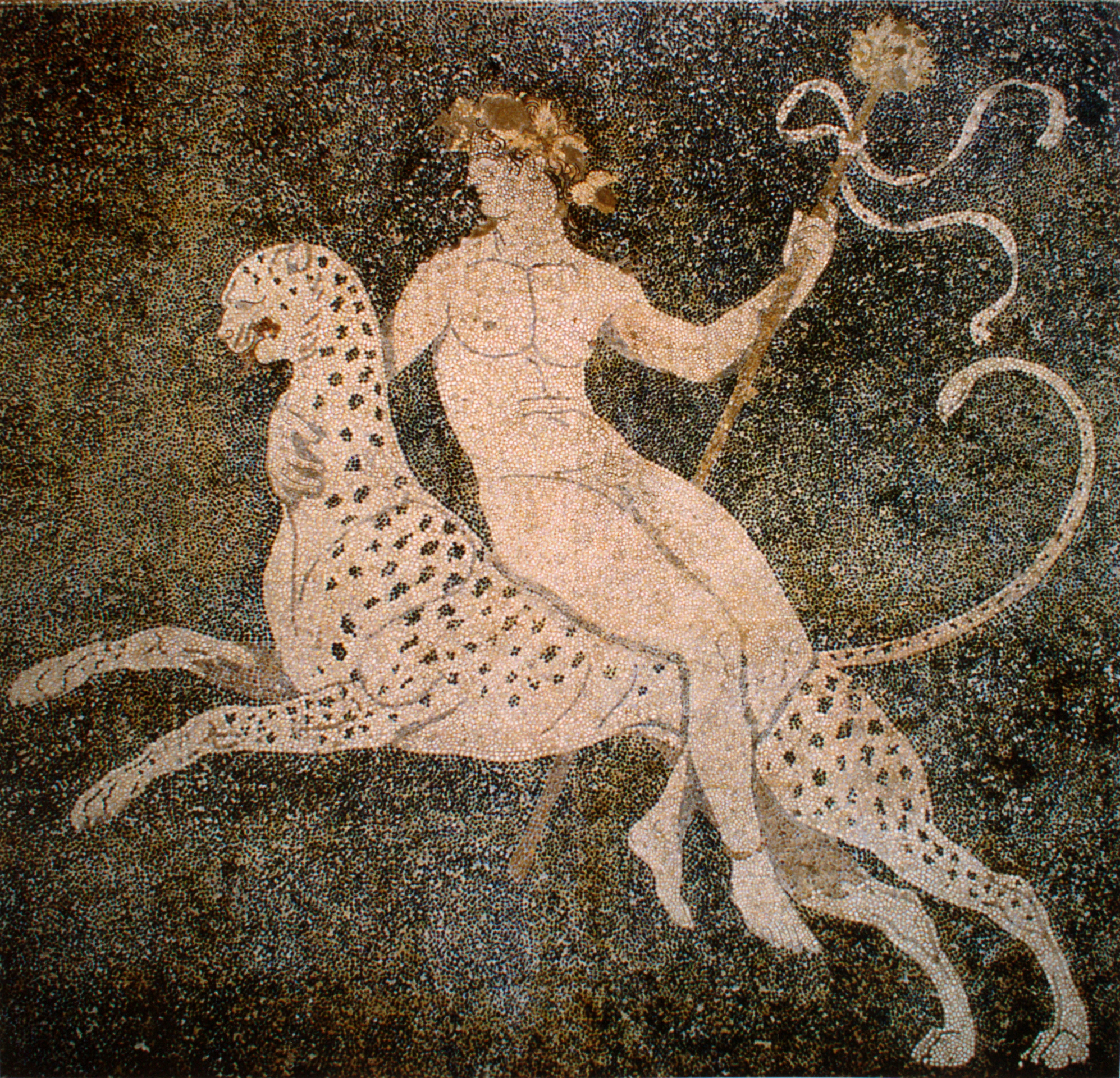 Dionysos on a cheetah, mosaic floor in the "House of Dionysos" at Pella, Greece. Pebbles, terracotta and lead. 2.70 x 2.65 m.